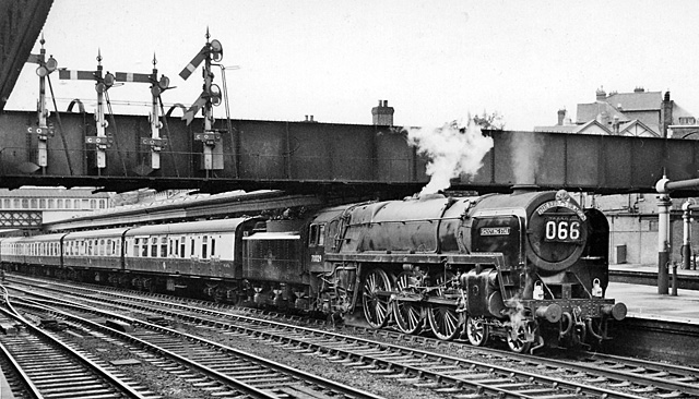 Newport Station, with the Up Red Dragon express, View NW, from the main Down platform; ex-Great Western main lines from London, Bristol etc., also Gloucester, Birmingham etc. and Hereford, Shrewsbury and the North-west, to Cardiff, Swansea and West Wales. Several lines from the Eastern and Western Valleys also came to Newport, making it one of the busiest railway stations in Britain, with about 250 trains (two-thirds being freight trains, which passed on the two centre lines) passing each way every 24 hours. The 'Red Dragon' was the 07.30 Carmarthen to Paddington, on this day headed (from Swansea) by BR Standard Class 7 'Britannia' 4-6-2 No. 70029 'Shooting Star'.